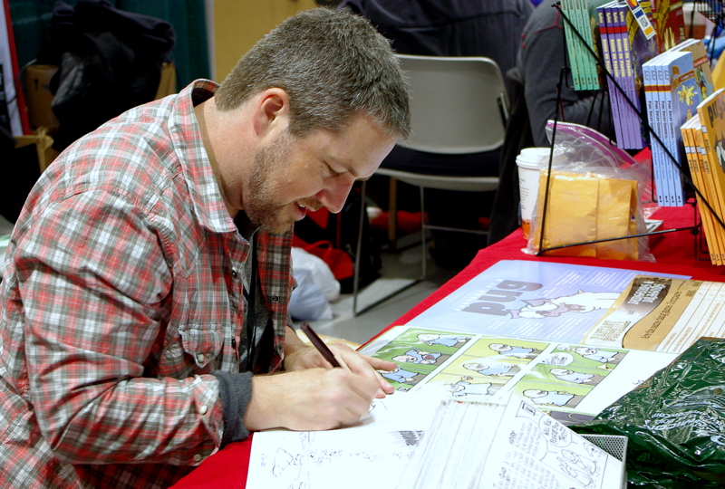 Dave Kellett at the 2010 Emerald City Comicon in the booth